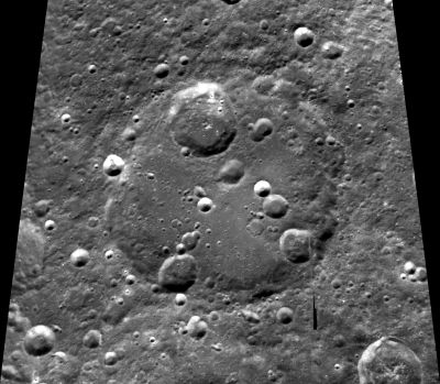 Rowland lunar crater - Clementine image.